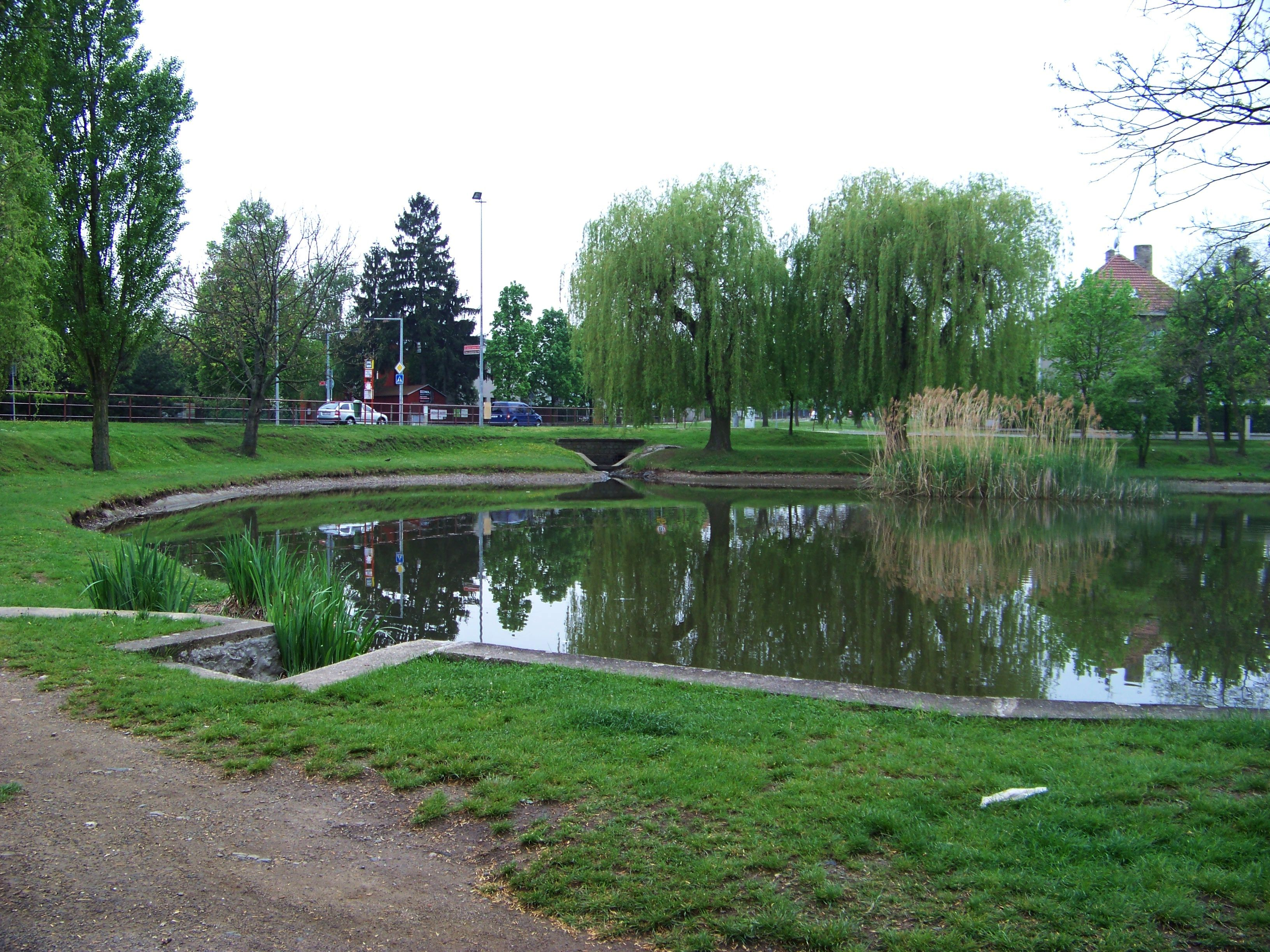 Prague-Kunratice, Czech Republic. Ohrada pond. - Google Maps - Google Earth